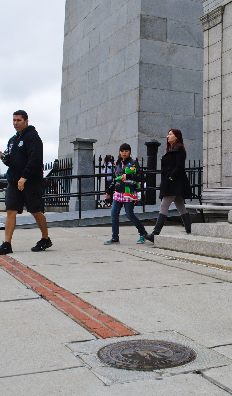 Northern terminus of the Freedom Trail at the Bunker Hill Monument